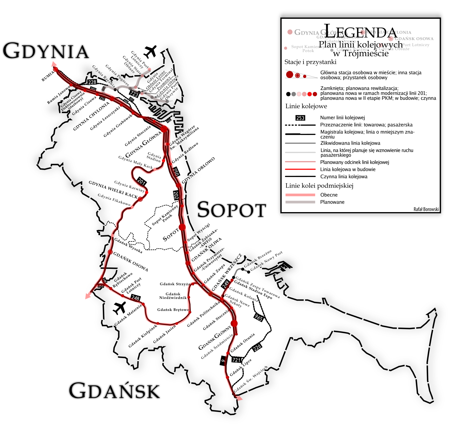 The outline of majority of railways in Gdynia, Sopot and Gdańsk with stations and stops - ones closed, planned and being build at the moment - marked on it. Black fog - Existing route of a standard route of SKM in borders of Tricity; Red fog - Planned route of PKM